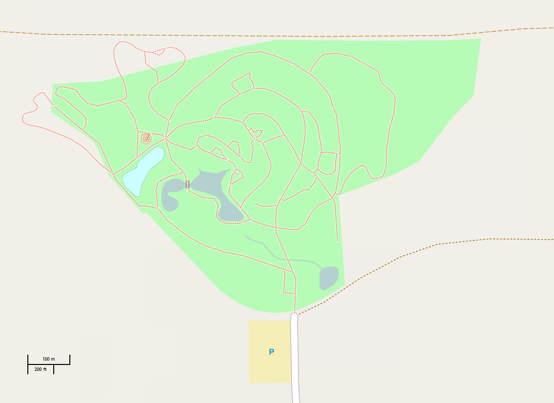 This map of Lausitzer Findlingspark Nochten was created from OpenStreetMap project data, collected by the community. This map may be incomplete, and may contain errors. Don't rely solely on it for navigation.